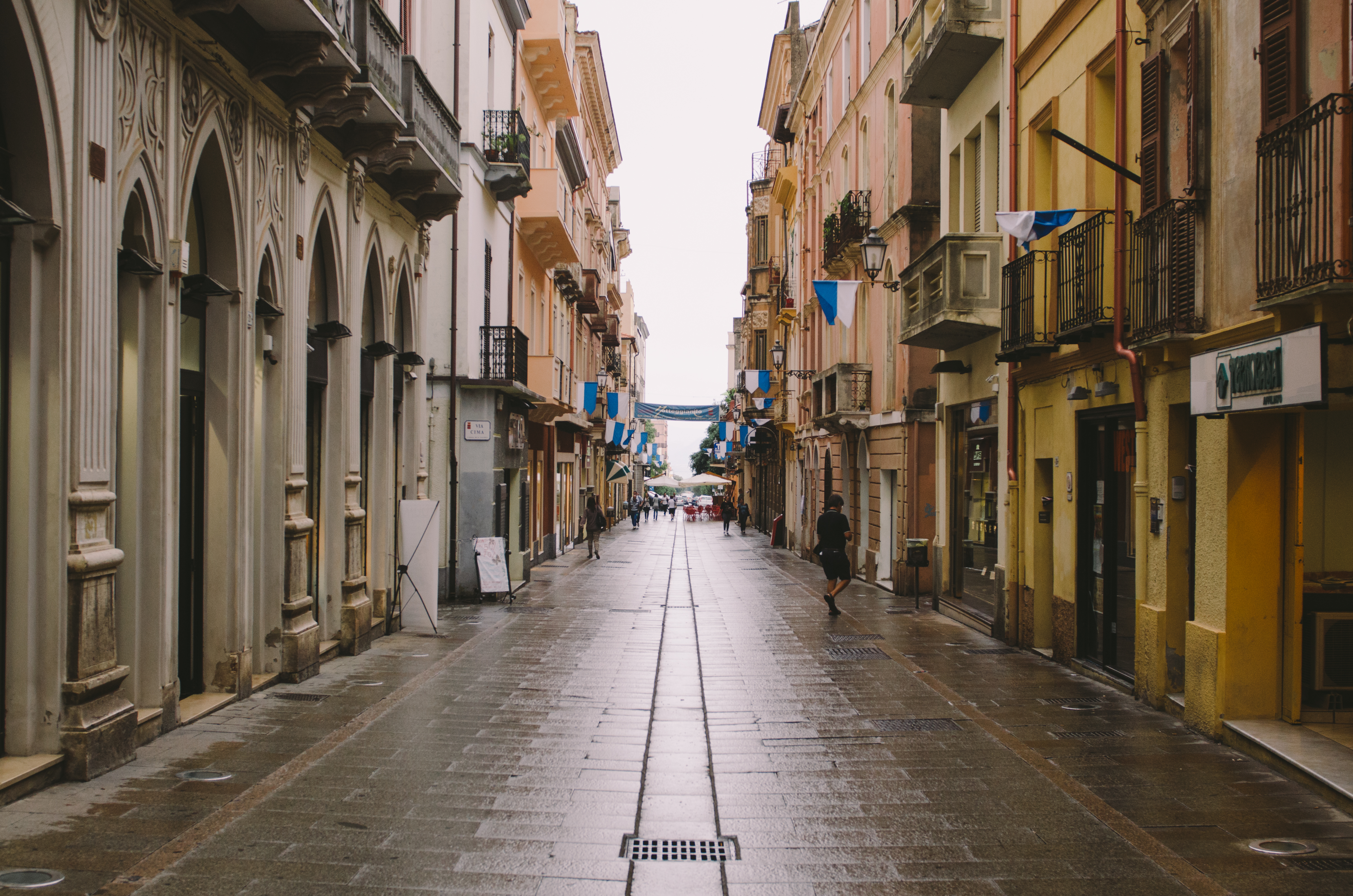 Iglesias street, Sardinia,Italy